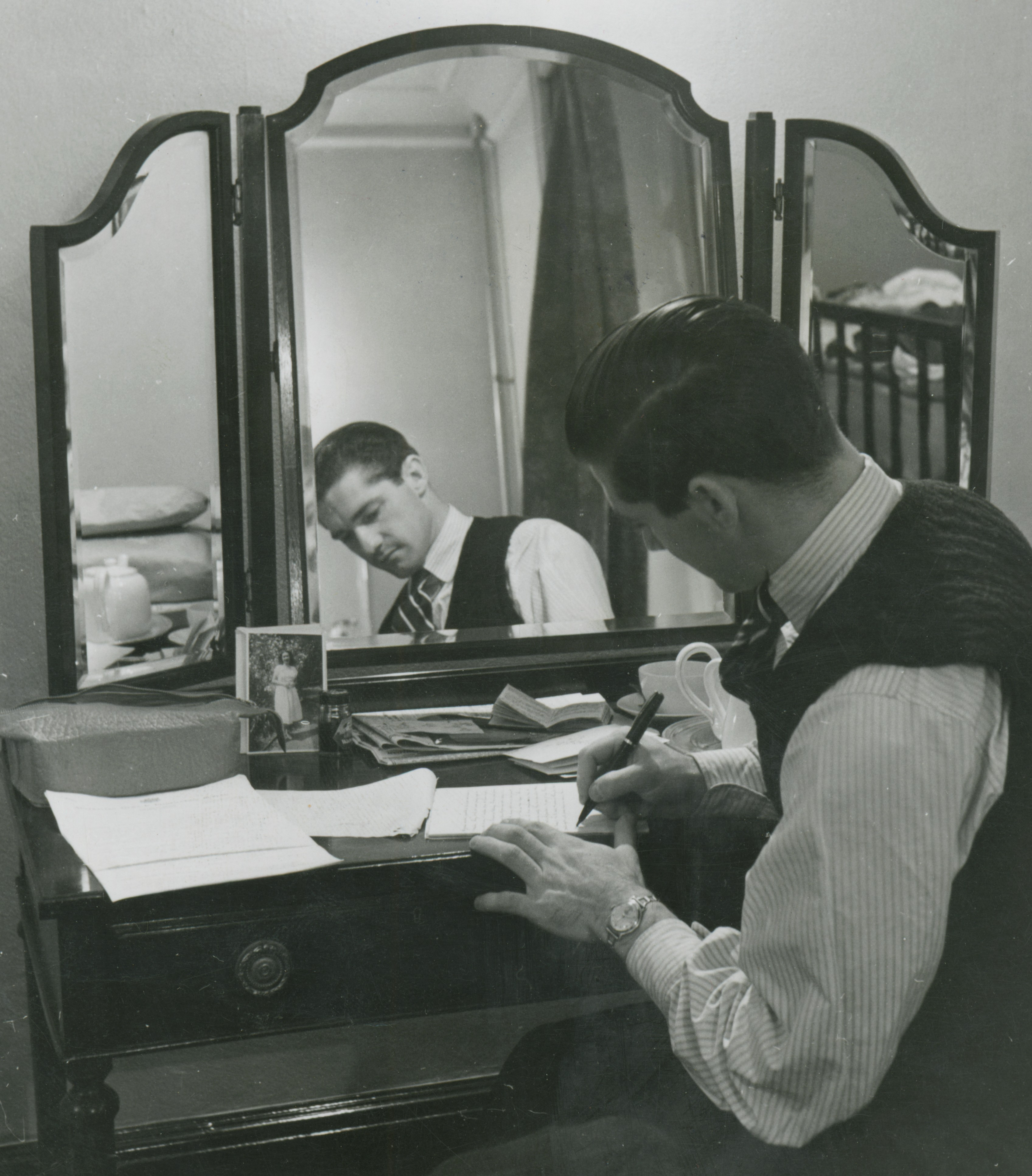 "Baby of the team" Neil Harvey, aged nineteen, never lets a Sunday go by without writing home to his mother